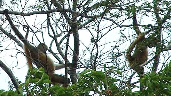 Wild Geoffroy's Spider Monkeys (Ateles geoffroyi), Guanacaste Province, Costa Rica. (This version lightened and more closely cropped.)